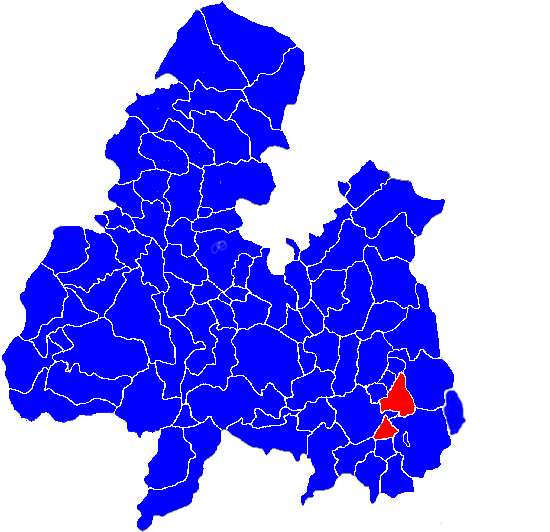 Outline map of North Tipperary, showing the location of Rahelty civil parish